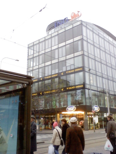 One building of The Andel City complex in Prague, The Czech Republic